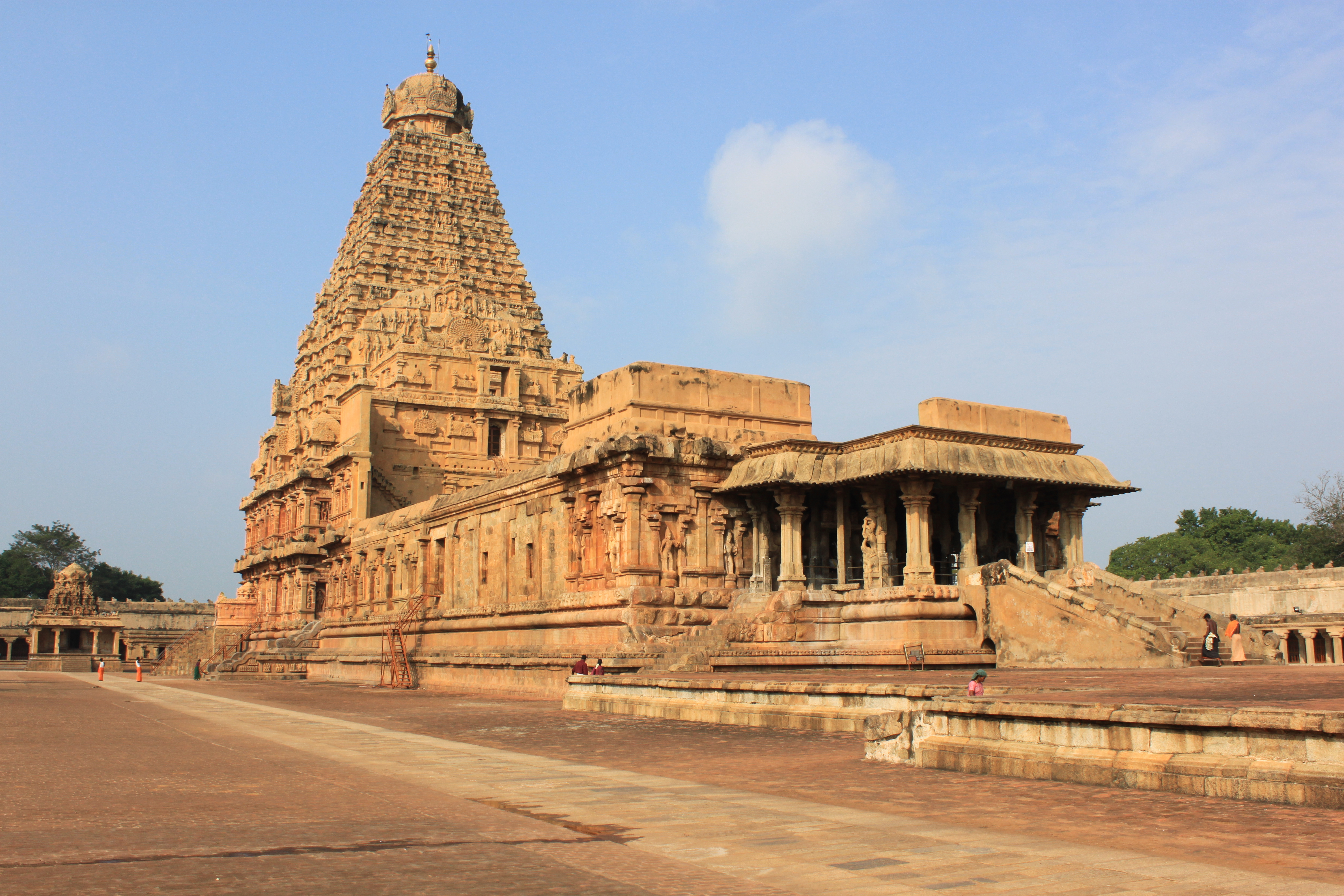 The complete view of Brihadeeswara temple.